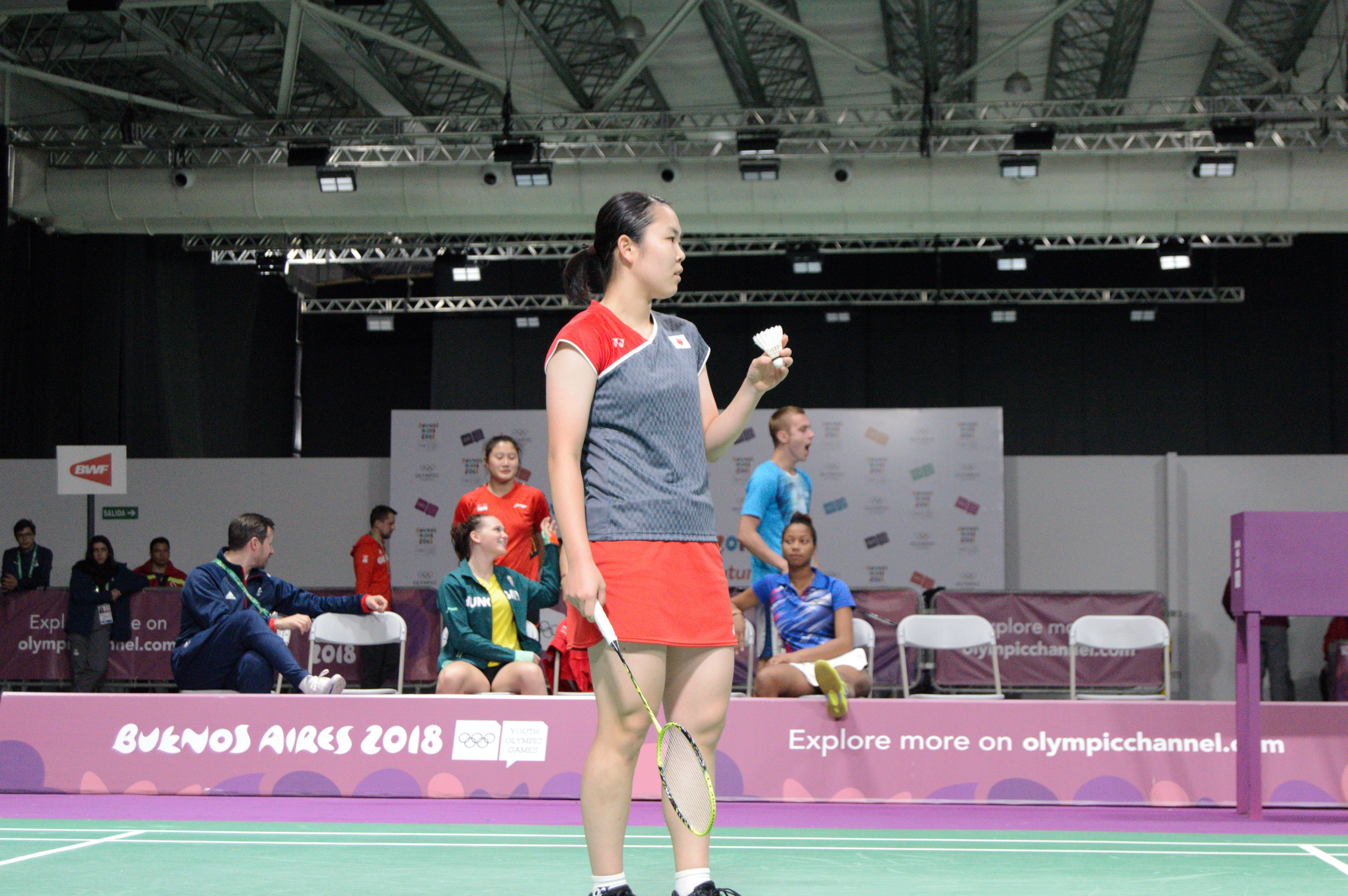 Bronze medal match for the badminton mixed relay team tournament at the 2018 Summer Youth Olympics. Match 3.